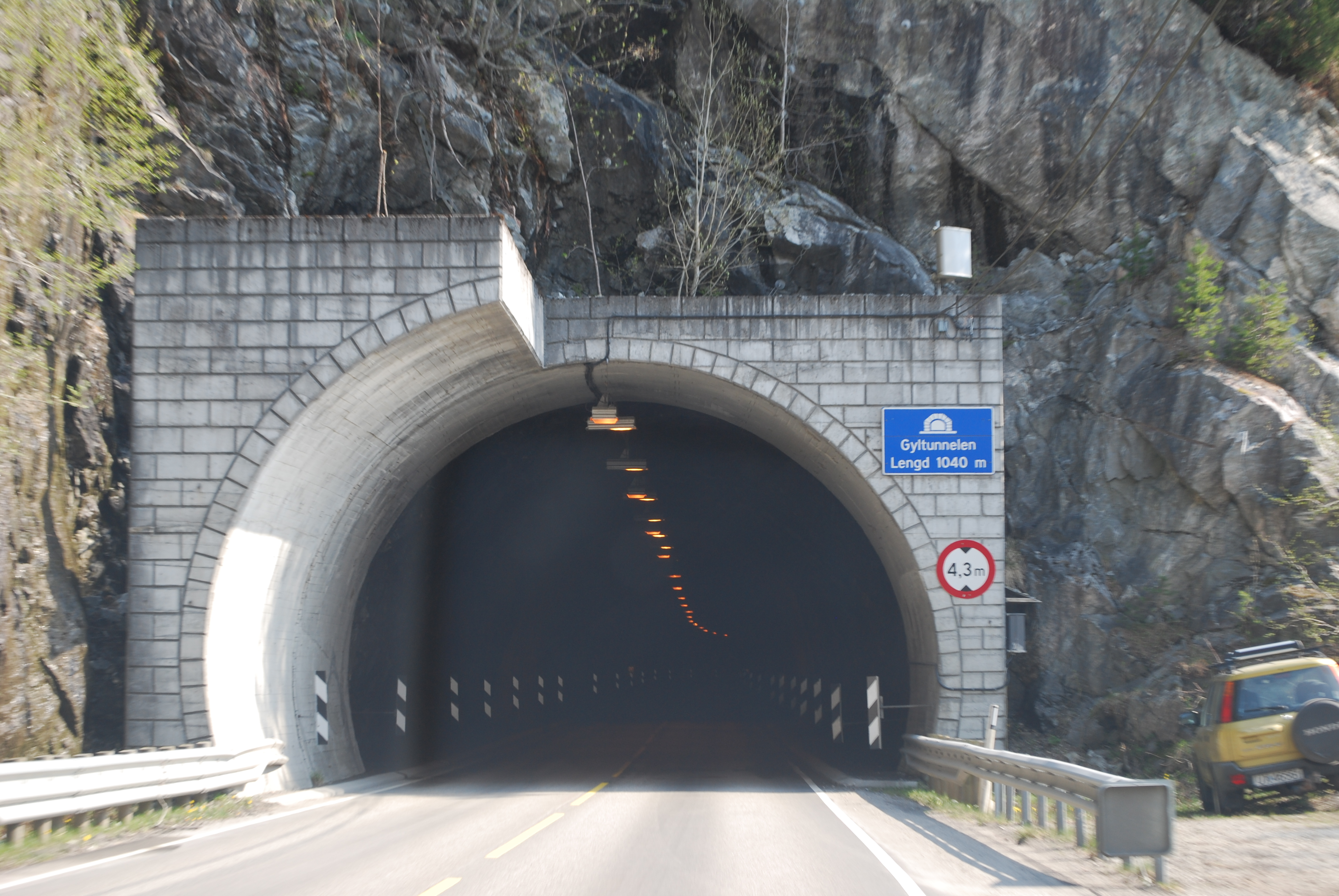 Northern entrance of the road tunnel Gyltunnelen on Riksvei 70 in Møre og Romsdal, Norway.